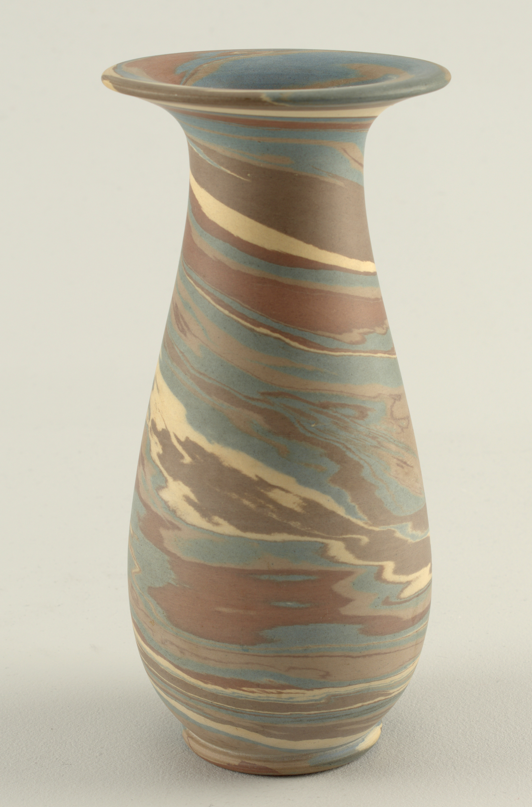 Vase with curved, pear-shaped profile and broad flaring lip. Body of brown, beige, blue and white mottled and wedged stoneware to create overall marbled effect. Unglazed.